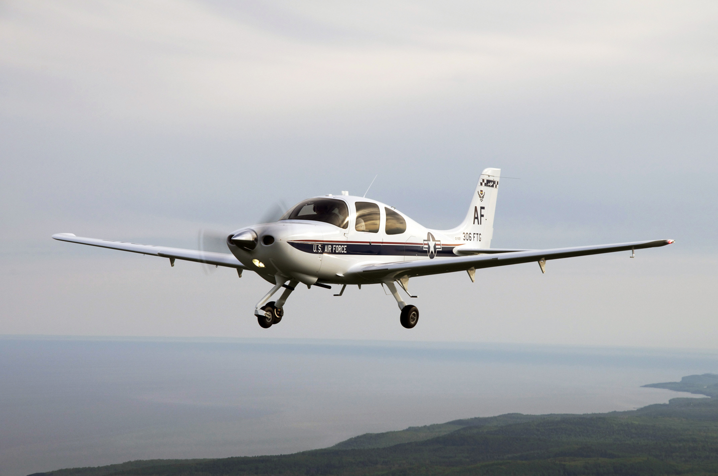 United States Air Force T-53A trainer manufactured by Cirrus Aircraft, Duluth, MN. The T-53A is used for training cadets at the United States Air Force Academy.